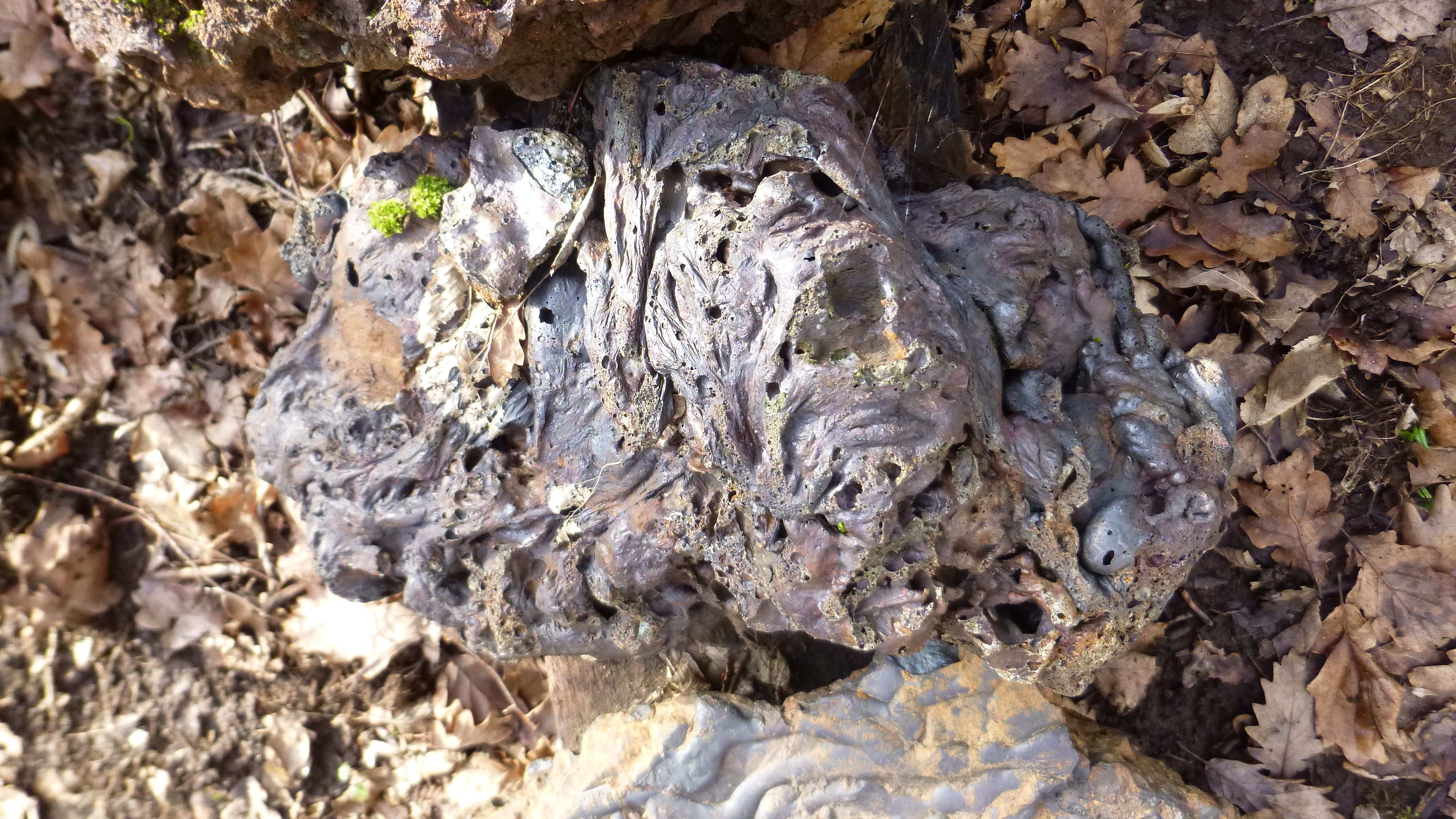 The "ferrier", Tannerre-en-Puisaye, Yonne, Burgundy, France. Sample of slag produced on site.